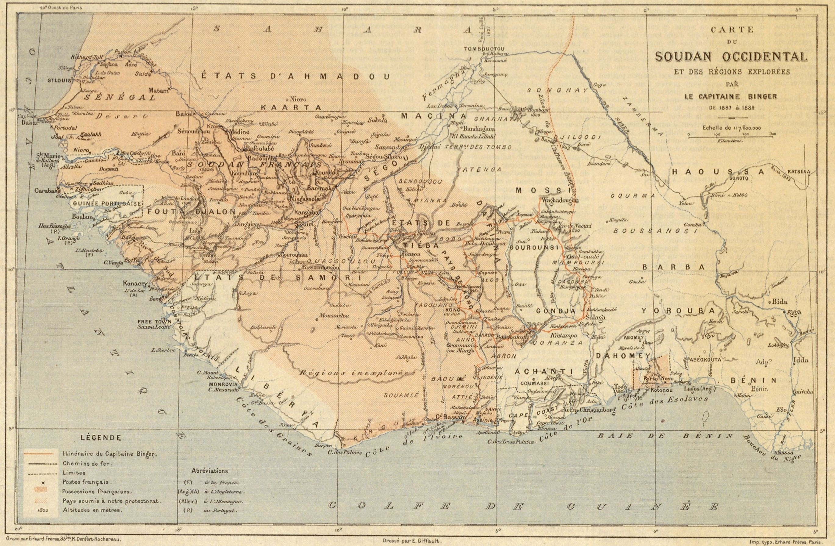 Map of the French Sudan (modern day Mali) published in Le Temps in March 1890 to illustrate an account of the 1887-1889 voyage of Captain Binger. (See also File:Soudan français-Binger.jpg)